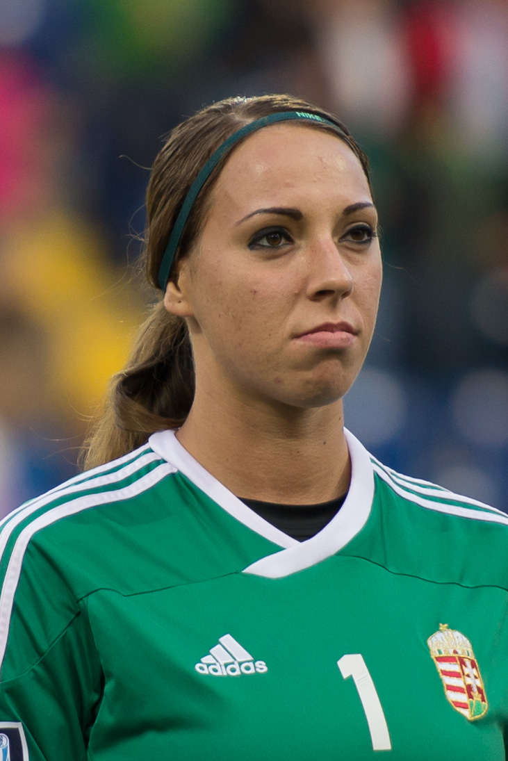 FIFA Women's World Cup 2015: Qualifying Round St. Pölten, 13.09.2014 Réka Szőcs